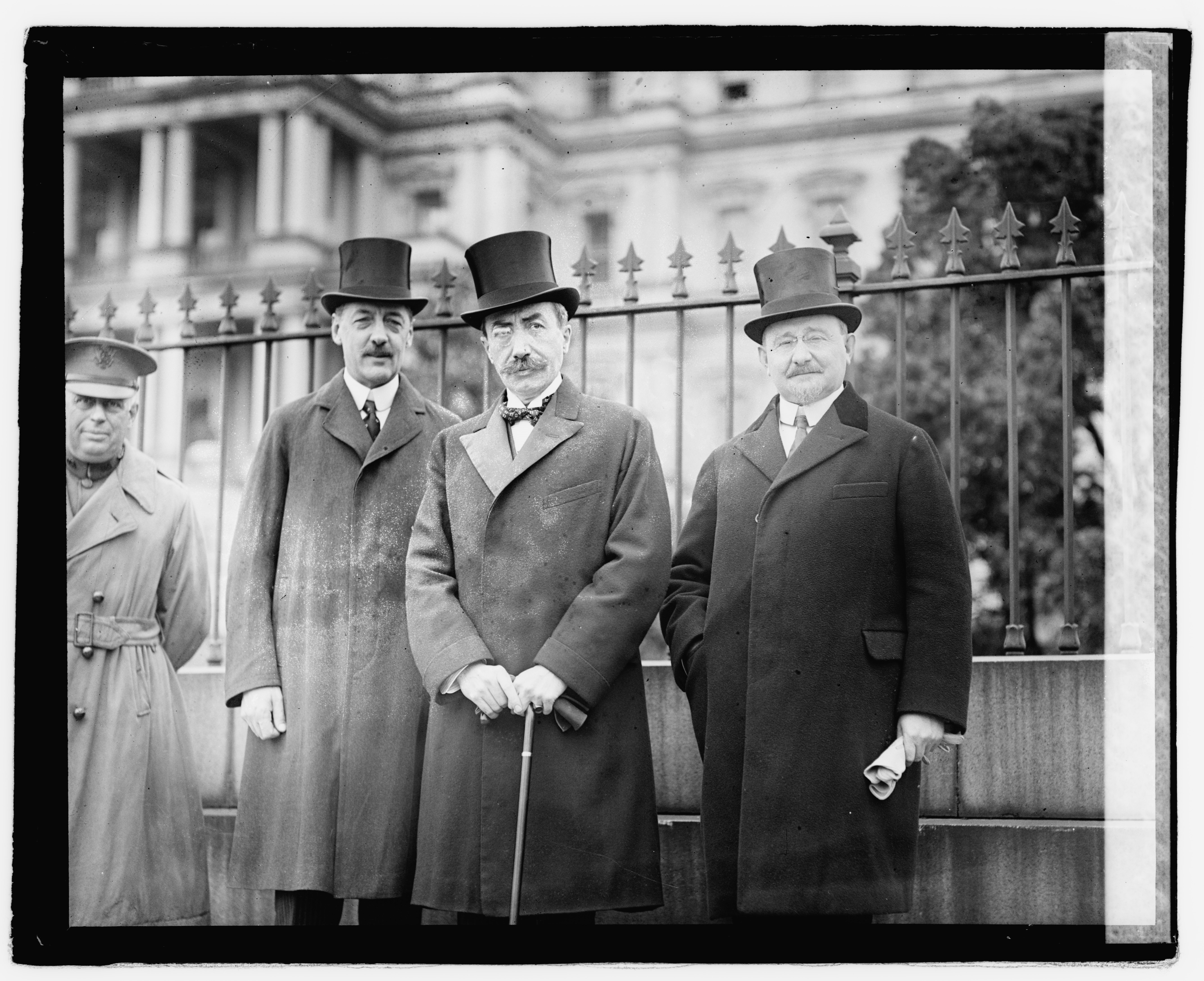 Title: Cheu de Wauters d'Oplinter, Baron de Cartier de Marchienne, F. Cattier, 11/3/21 Abstract/medium: National Photo Company Collection (Library of Congress) Physical description: 1 negative